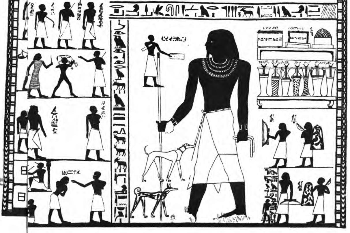 Drawing of a depiction of the ancient Egyptian nomarch Ameny from his tomb BH2 at Beni Hasan. Time of Senusret I, 12th Dynasty, Middle Kingdom.